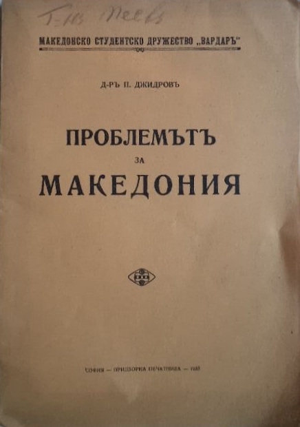 "The Problem for Macedonia"